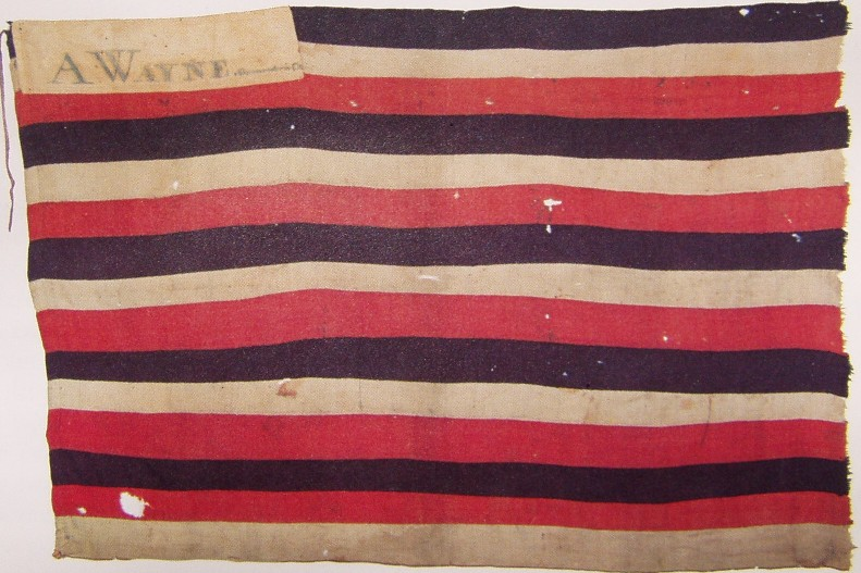 Flag given by General Anthony Wayne to Miami chief She-Moc-E-Nish at the Treaty of Greenville, 1795. For details, see [1]